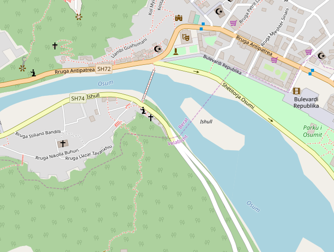 Mapa ostrva Berat